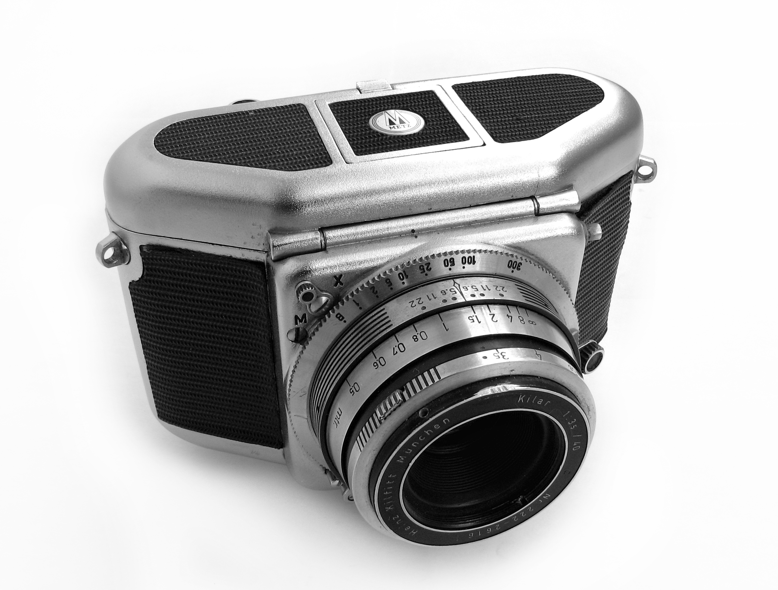 Edit of Image:Mecaflex-camera-HDR-BW-0b.jpg by Thegreenj. Mecaflex SLR, circa 1953-1958. Designed by Heinz Kilfitt.